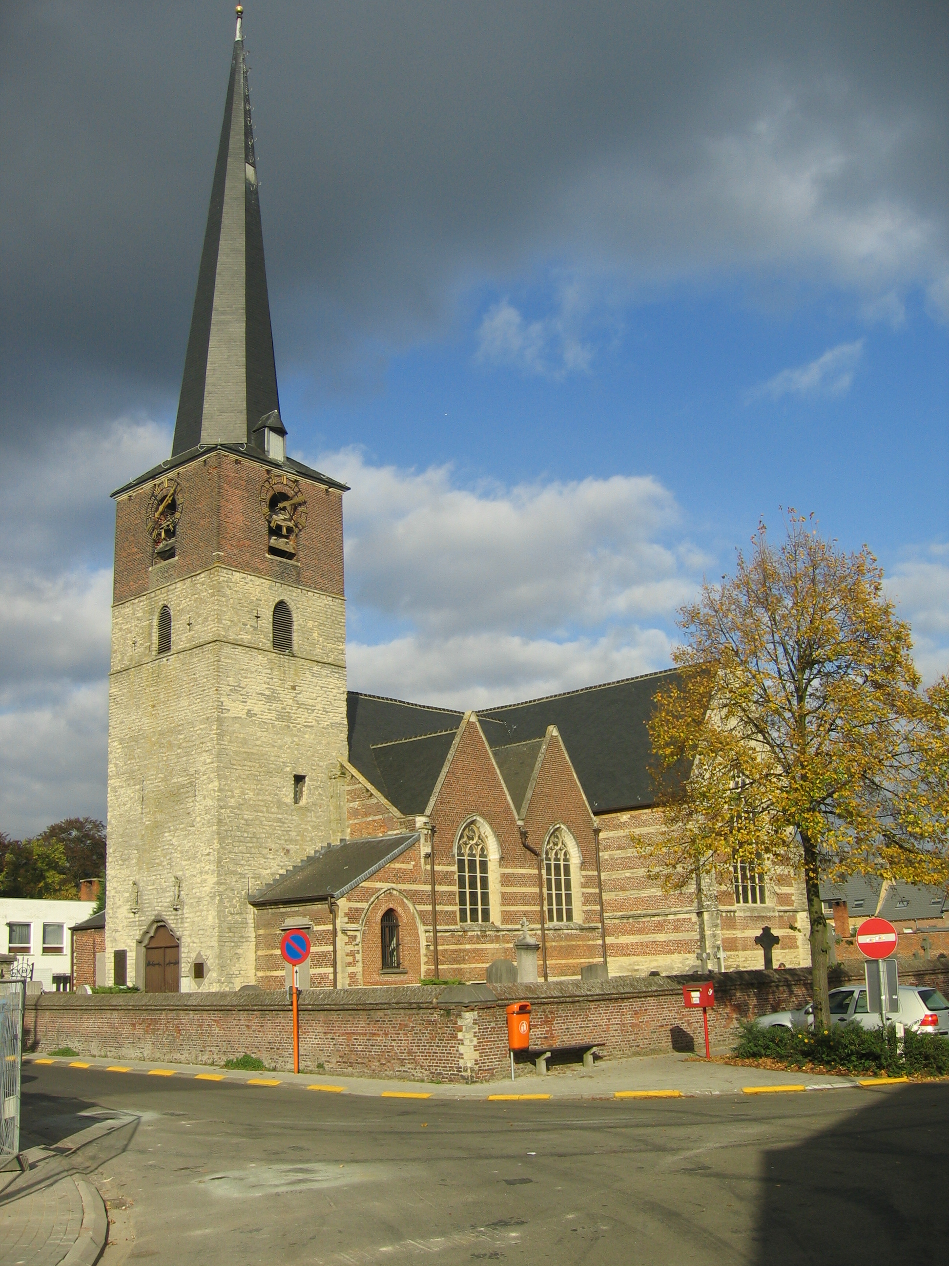 Picture of the Sint Jan-Baptist church in Tildonk